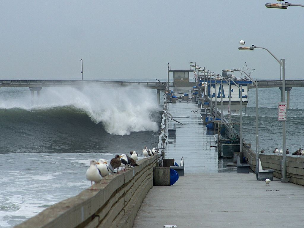 El Nino - 2002-12-21. High tide at the Ocean Beach pier.